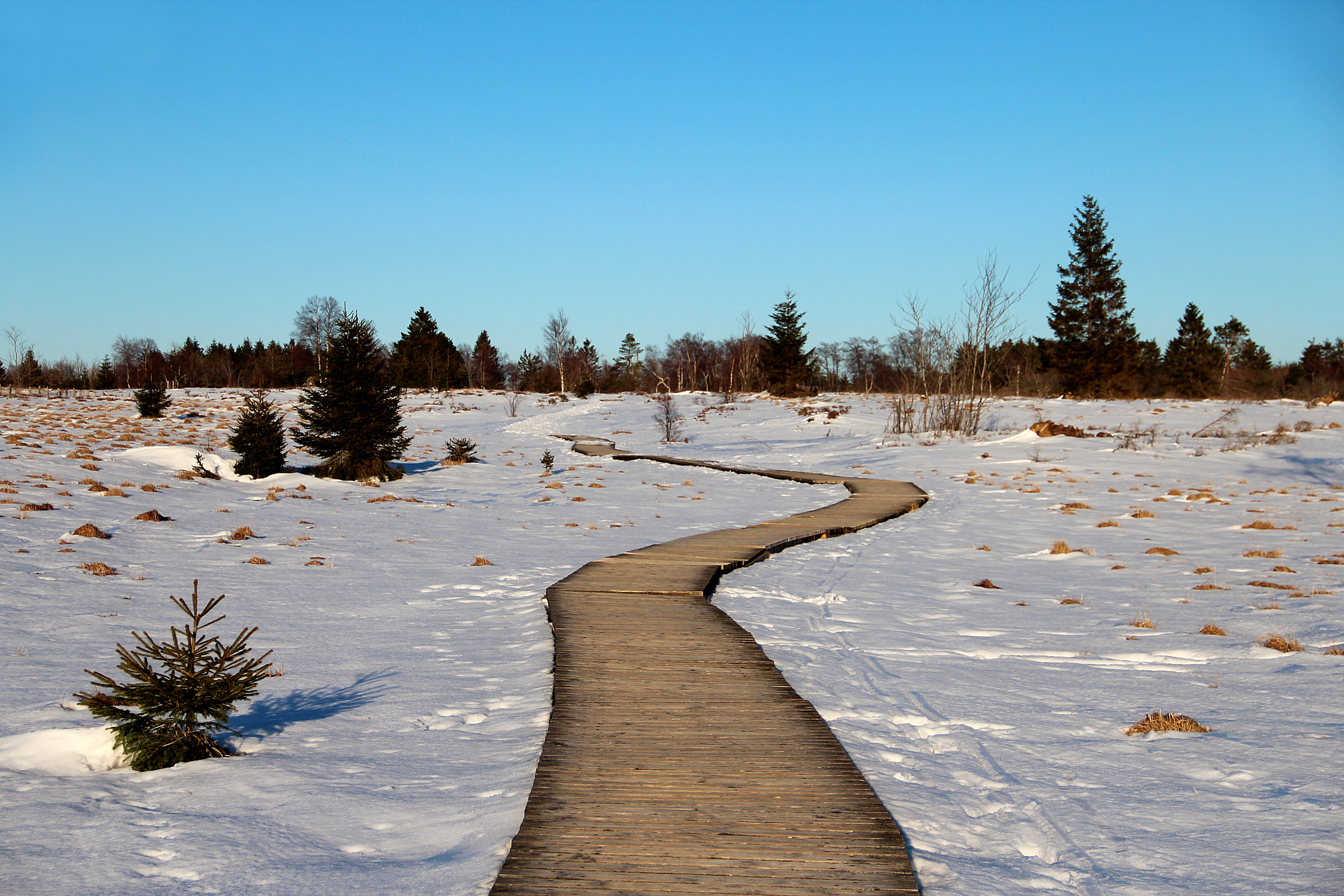 Xhoffraix - High Fens (Belgium), Grande-Fagne and boardwalks of the « Vecquée ».